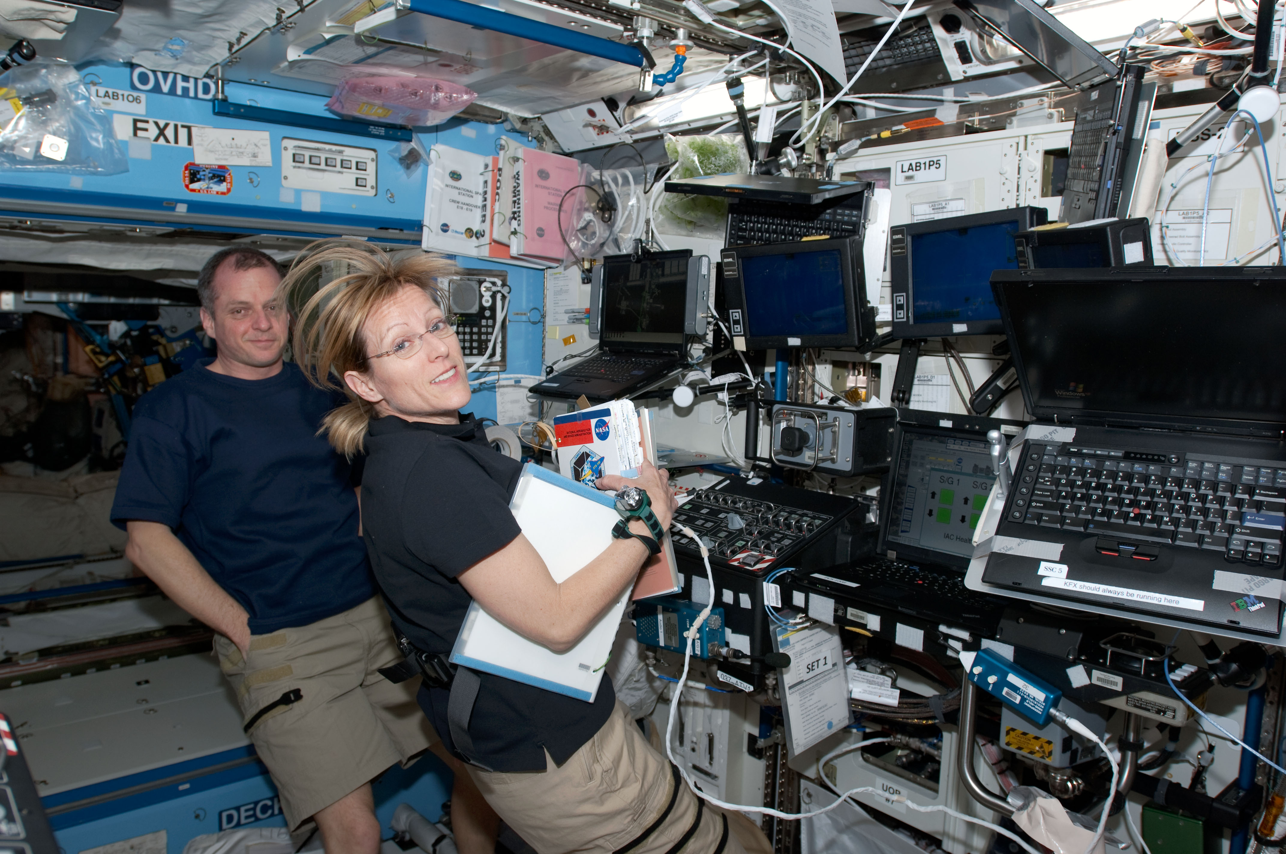 NASA astronauts Kathryn Hire, STS-130 mission specialist; and T.J. Creamer, Expedition 22 flight engineer, are pictured near the robotic workstation in the Destiny laboratory of the International Space Station while space shuttle Endeavour remains docked with the station.